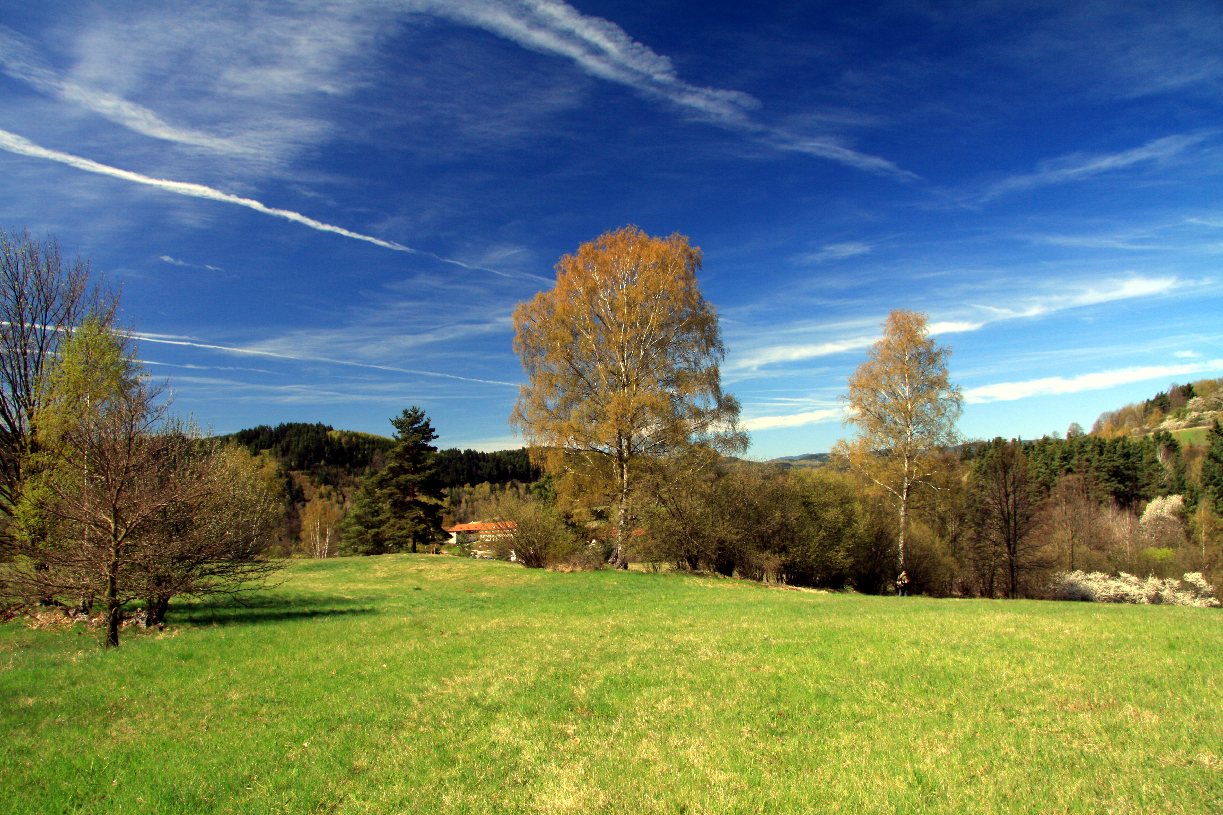 National nature reserve Vyšenské kopce in Český Krumlov District, Czech Republic Project: Chráněná území